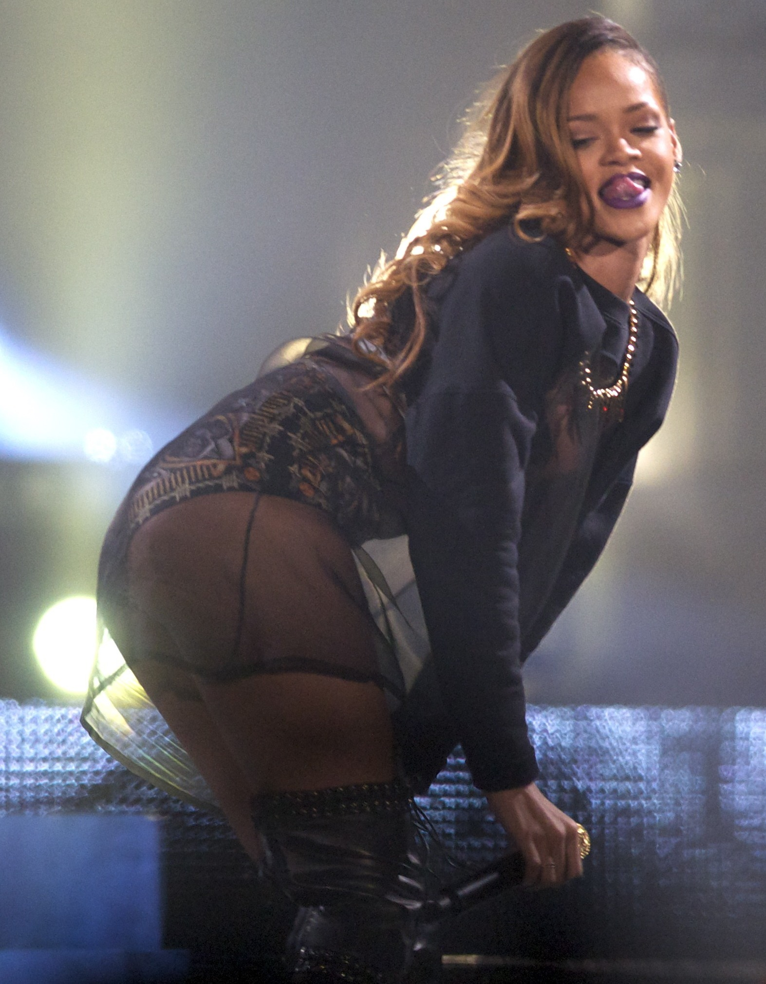 Rihanna performing Diamonds World Tour at the Xcel Energy Center, 24 March 2013.